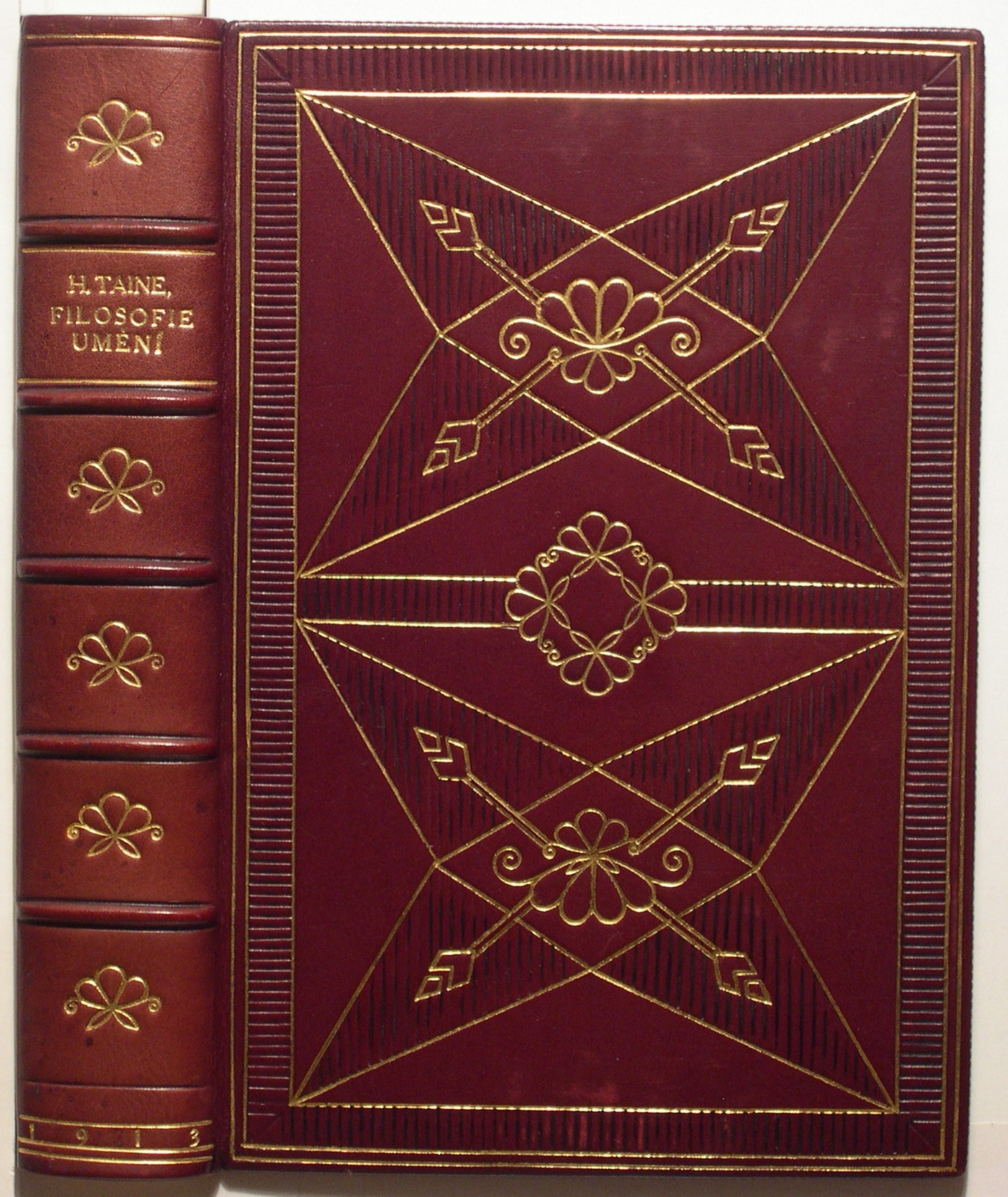 Full-leather-binding, Jenda Rajman 1915